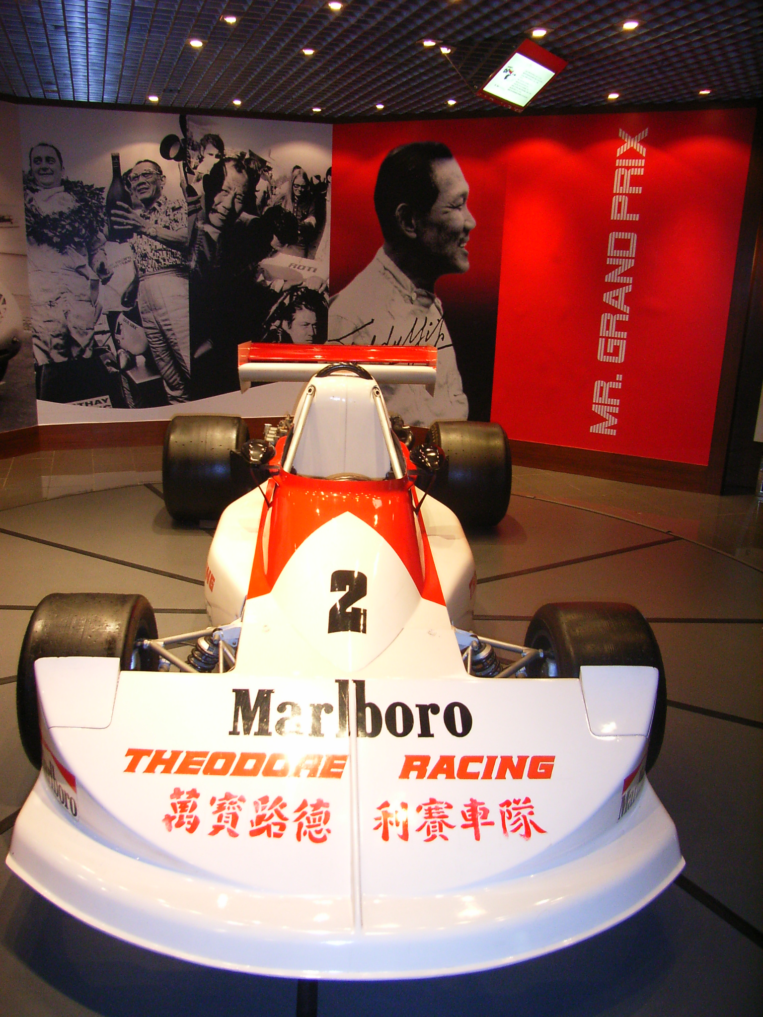 The Grad Prix Museum in Macau